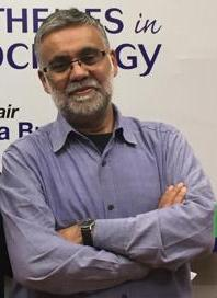 Sanjay Srivastava on 02 March 2019 at the launch of the book entitled Critical Themes in Indian Sociology.